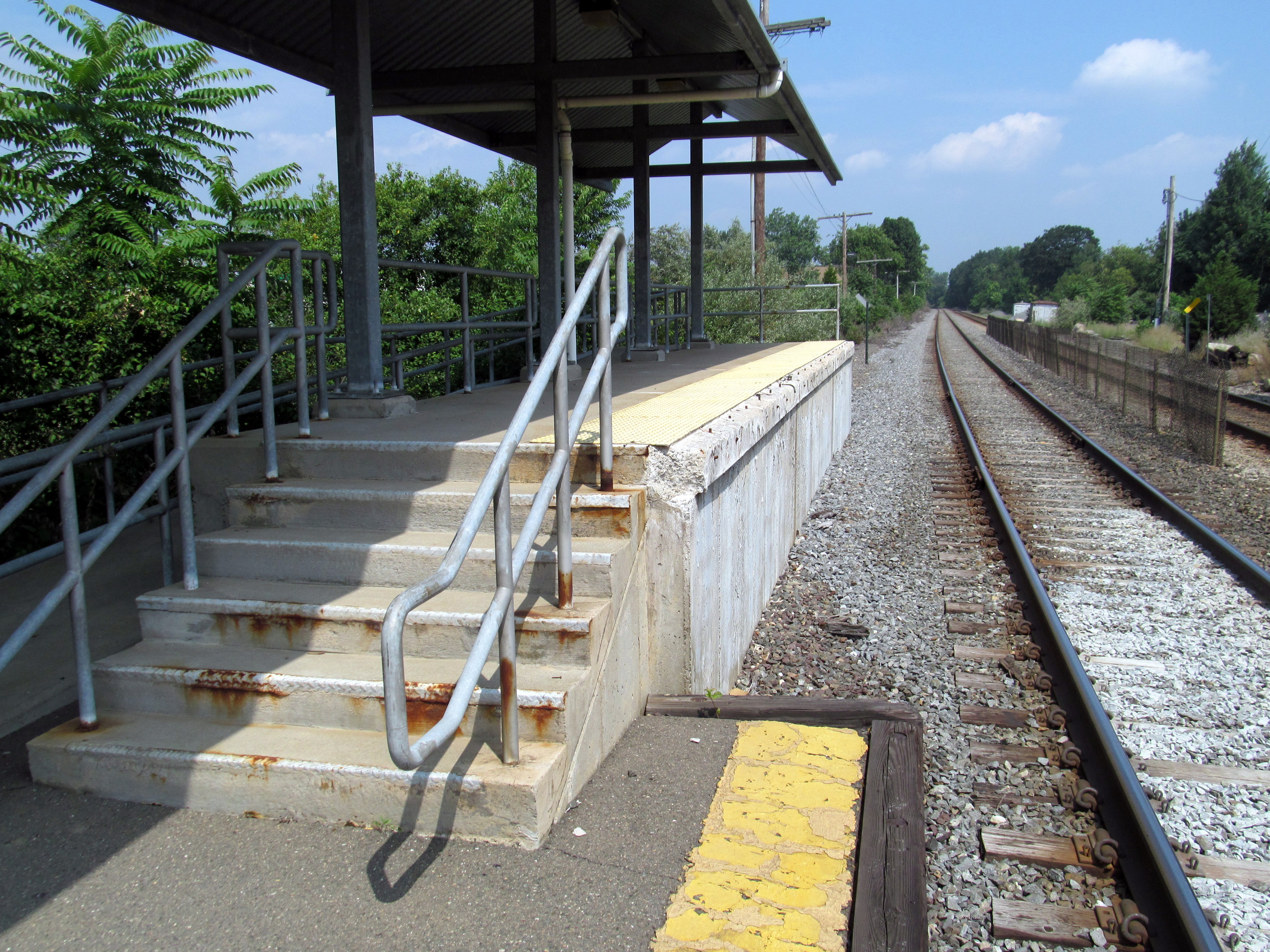 Mini-high platform at Mishawum station, showing the missing platform edge that prevents the station from being handicapped accessible